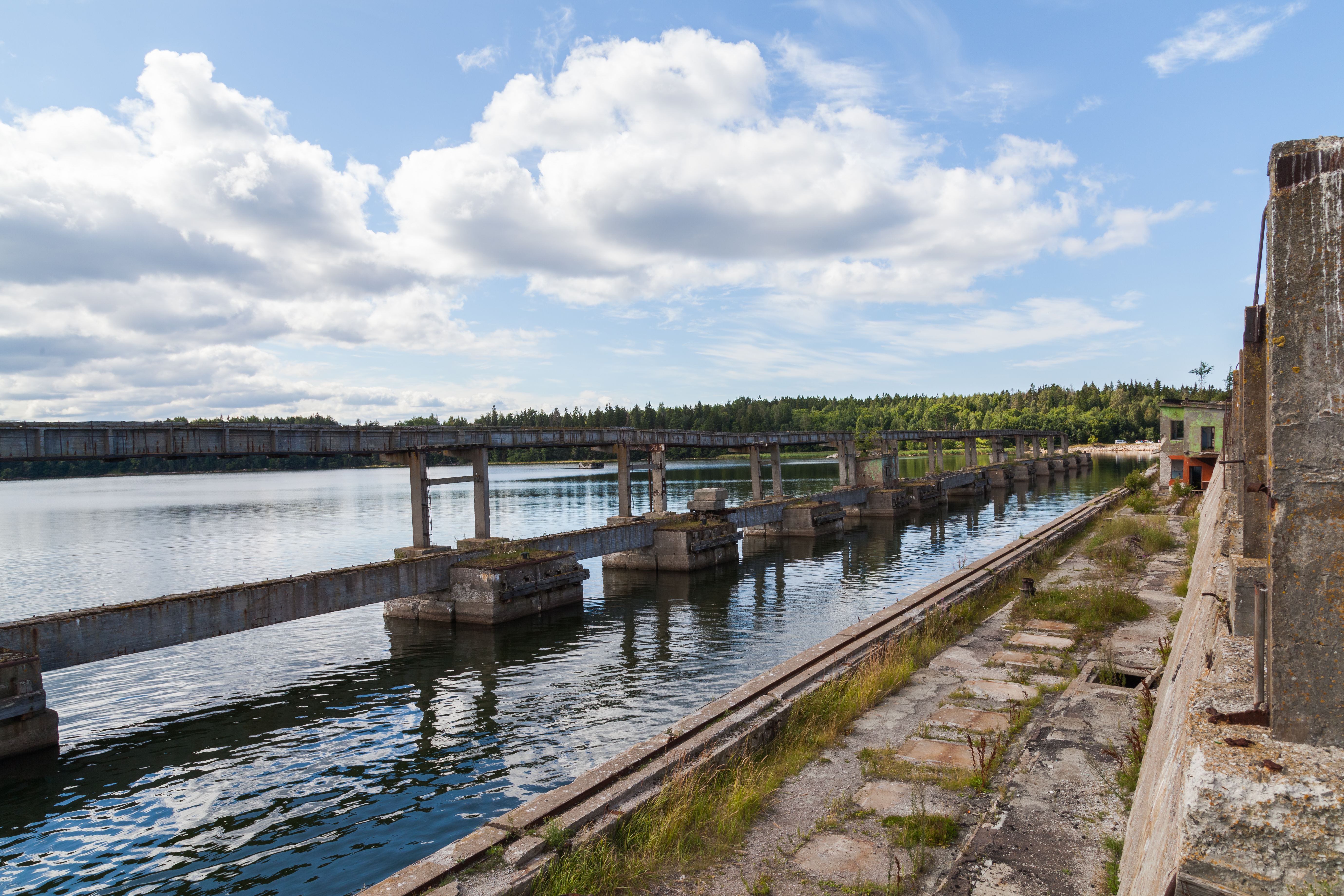 Former soviet submarine base, Lahemaa National Park, Estonia